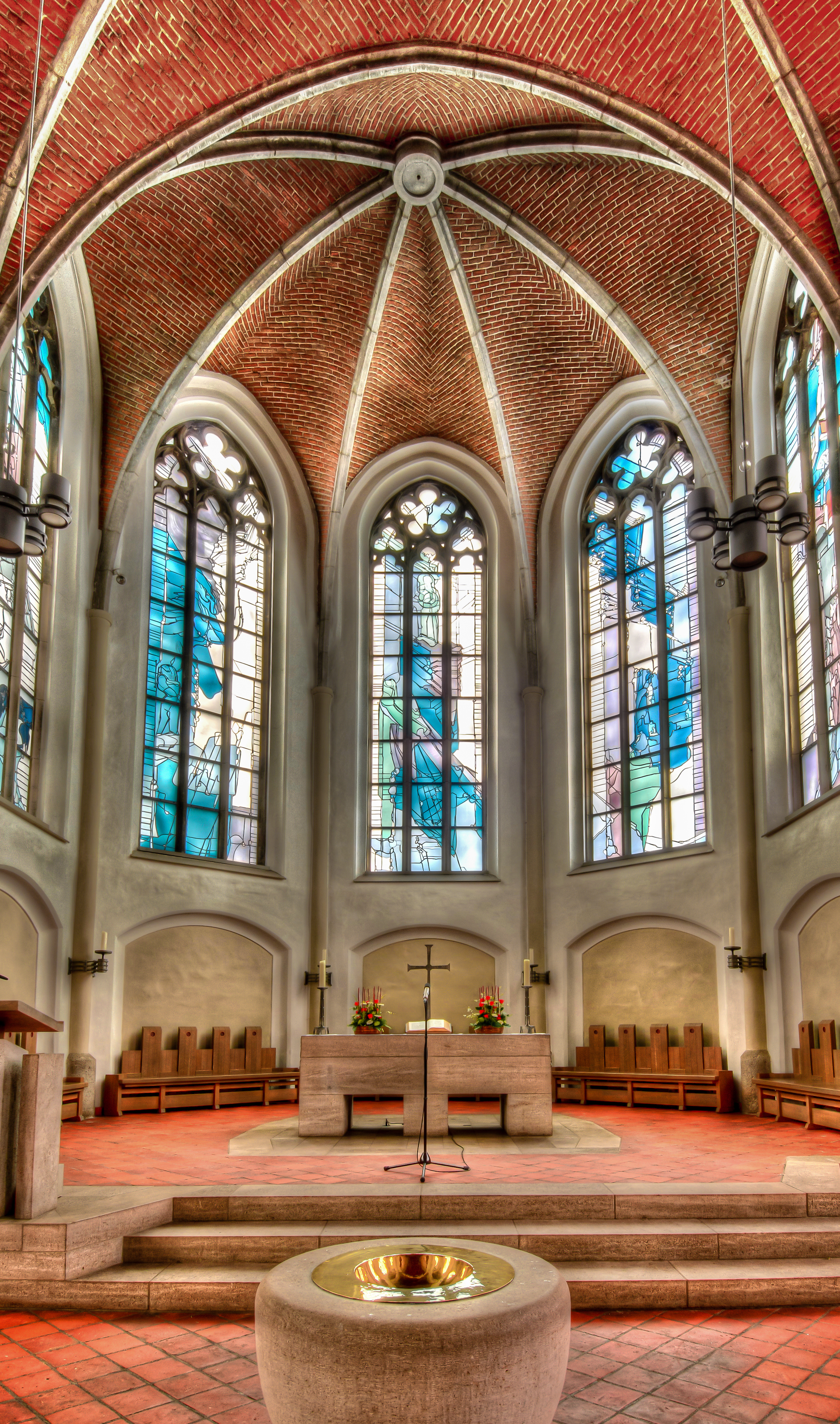 Sanctuary of the "Petri-Kirche" in Mülheim an der Ruhr with enlightned windows